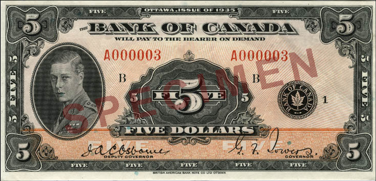 1935 Series $5 banknote, obverse